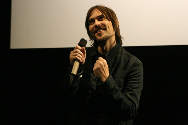 Director Don Hertzfeldt in 2015 speaking at an event in the Austrian Film Museum